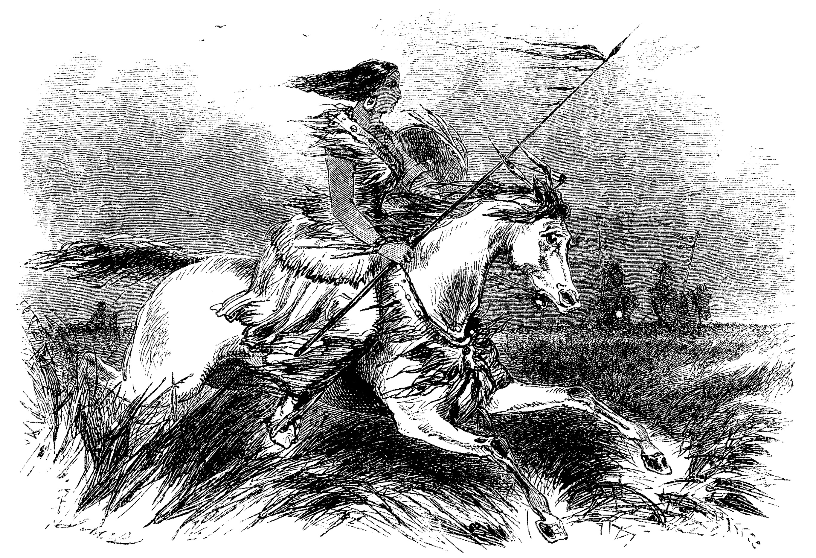 Beckwourth: Pine Leaf, the Indian Heroine